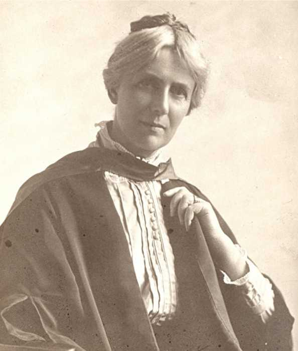 The British educationalist Millicent Mackenzie (1863–1942)